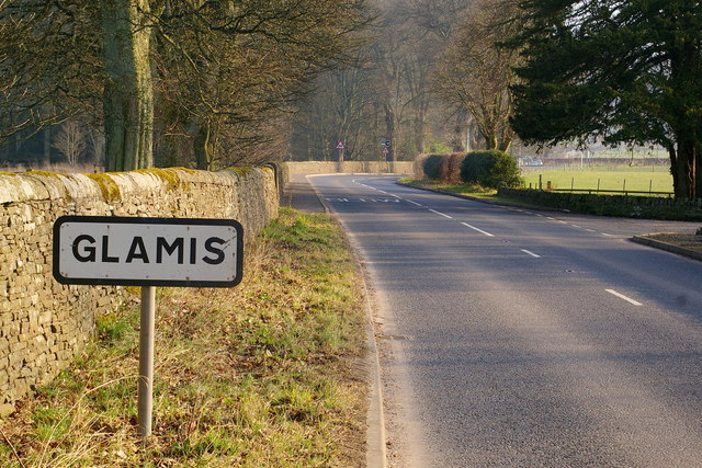 Entering Glamis from Kirriemuir Road Photo taken looking south.